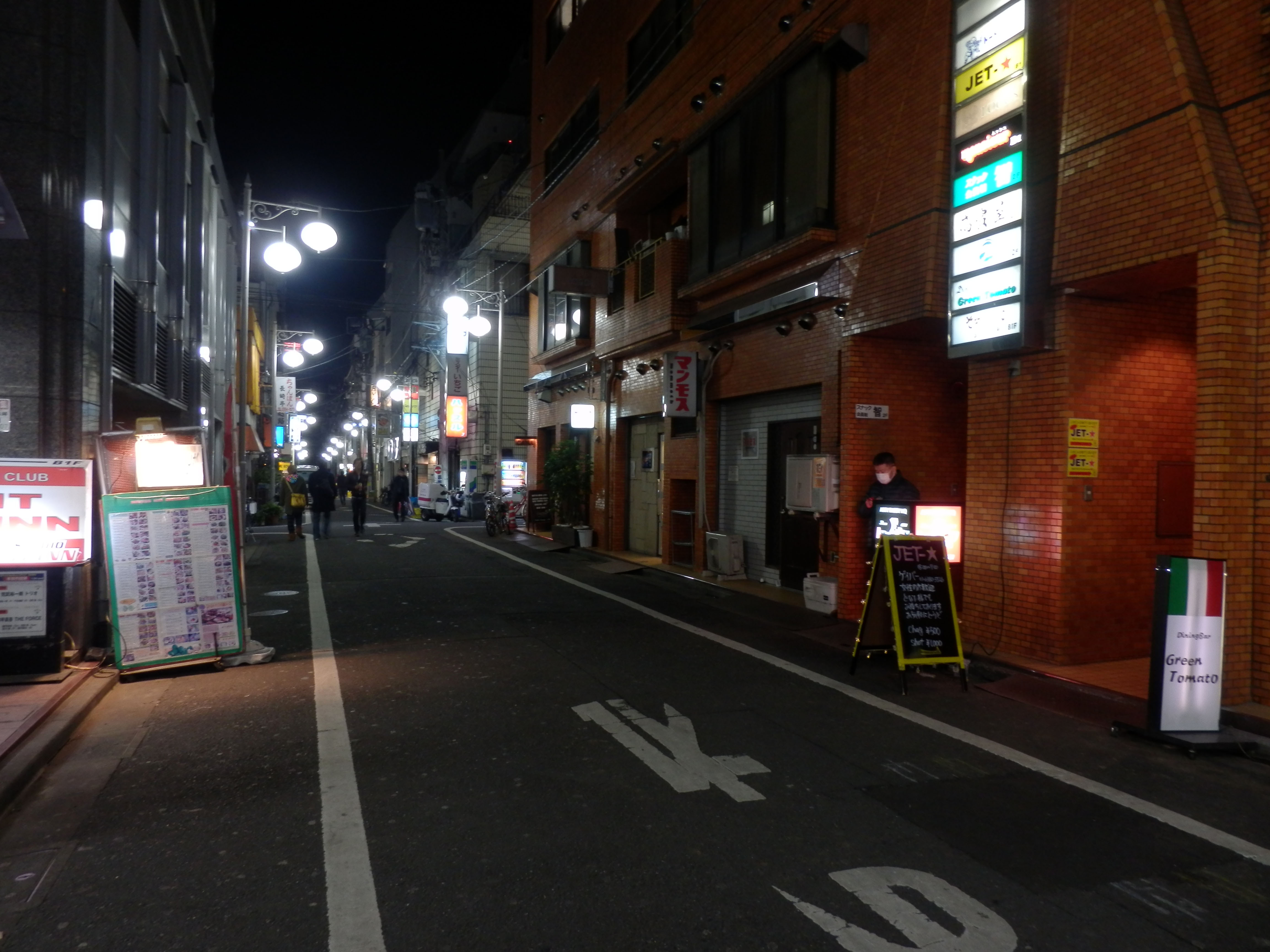 Shinjuku 2-chome (famous for homosexual nightlife in Tokyo, Japan)